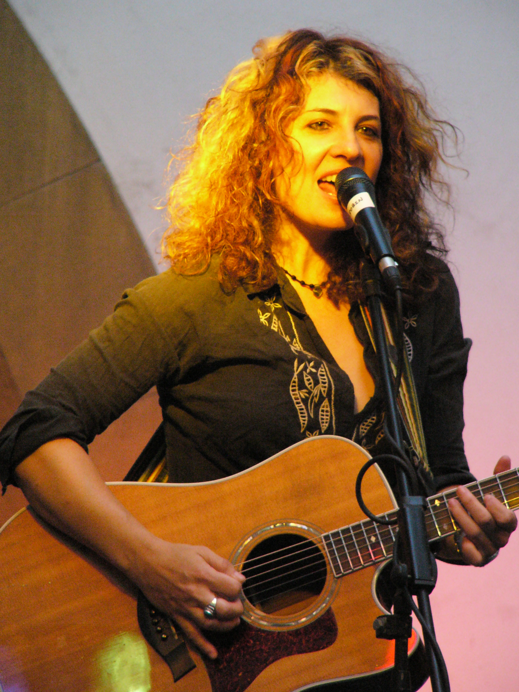 American singer Janet Robin in the concert in Olomouc (The Czech Republic).